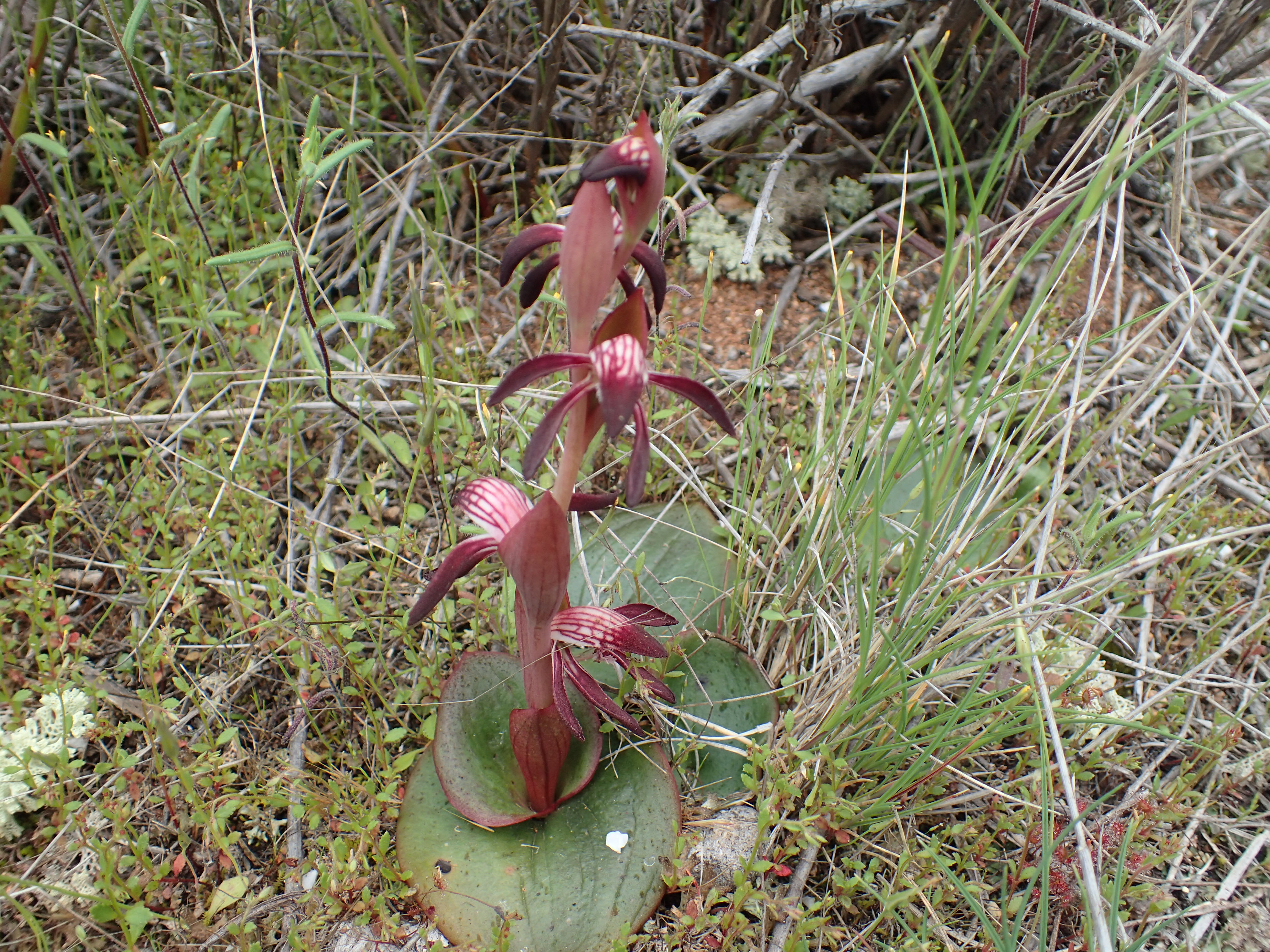 Pyrorchis nigricans growing on thin soil on a granite outcrop in the Pallarup Conservation Reserve near Lake King, apparently without having been burned